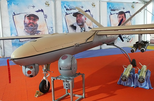 Iran Shahed 129 nose, and gimbal camera, and Sadid-1 anti-tank missiles.